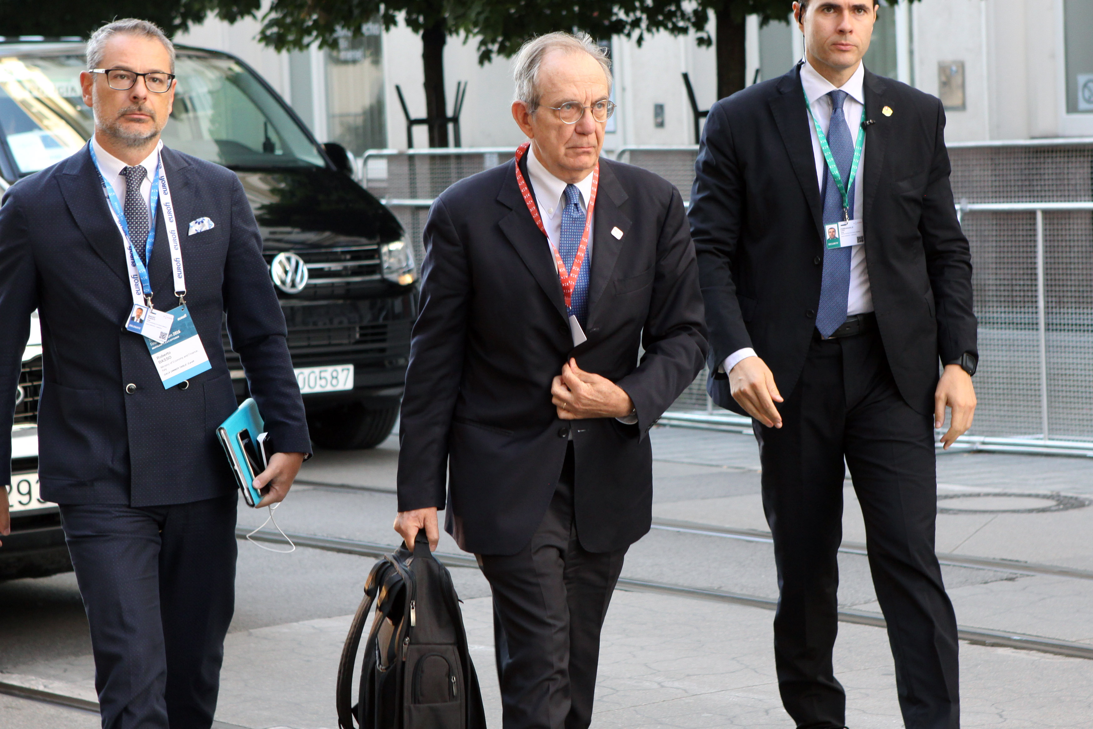 Italy, Mr. Pier Carlo Padoan, Minister of Economy and Finances (C) Informal Meeting of Ministers for Economic and Financial Affairs (Informal ECOFIN) Photo: Andrej Klizan